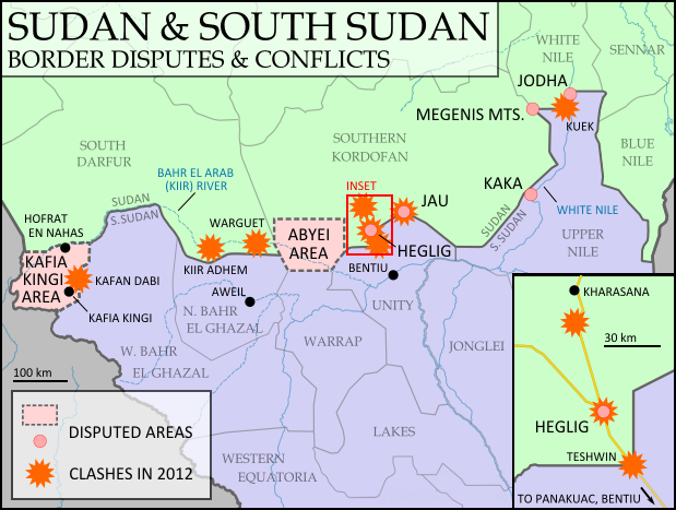 احدي مدن ولاية غرب بحر الغزال بها عدد من المعالم الاثرية وتضم عدد سبعة مجموعات اجتماعية